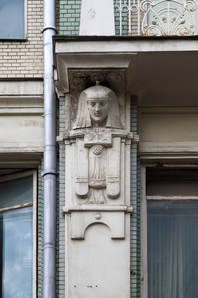 9, Bolshaya Dmitrovka St., Moscow. Designed by Adolph Erichson, built 1904-1905.